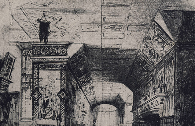 Amleto-1871-Facio-set for act 3